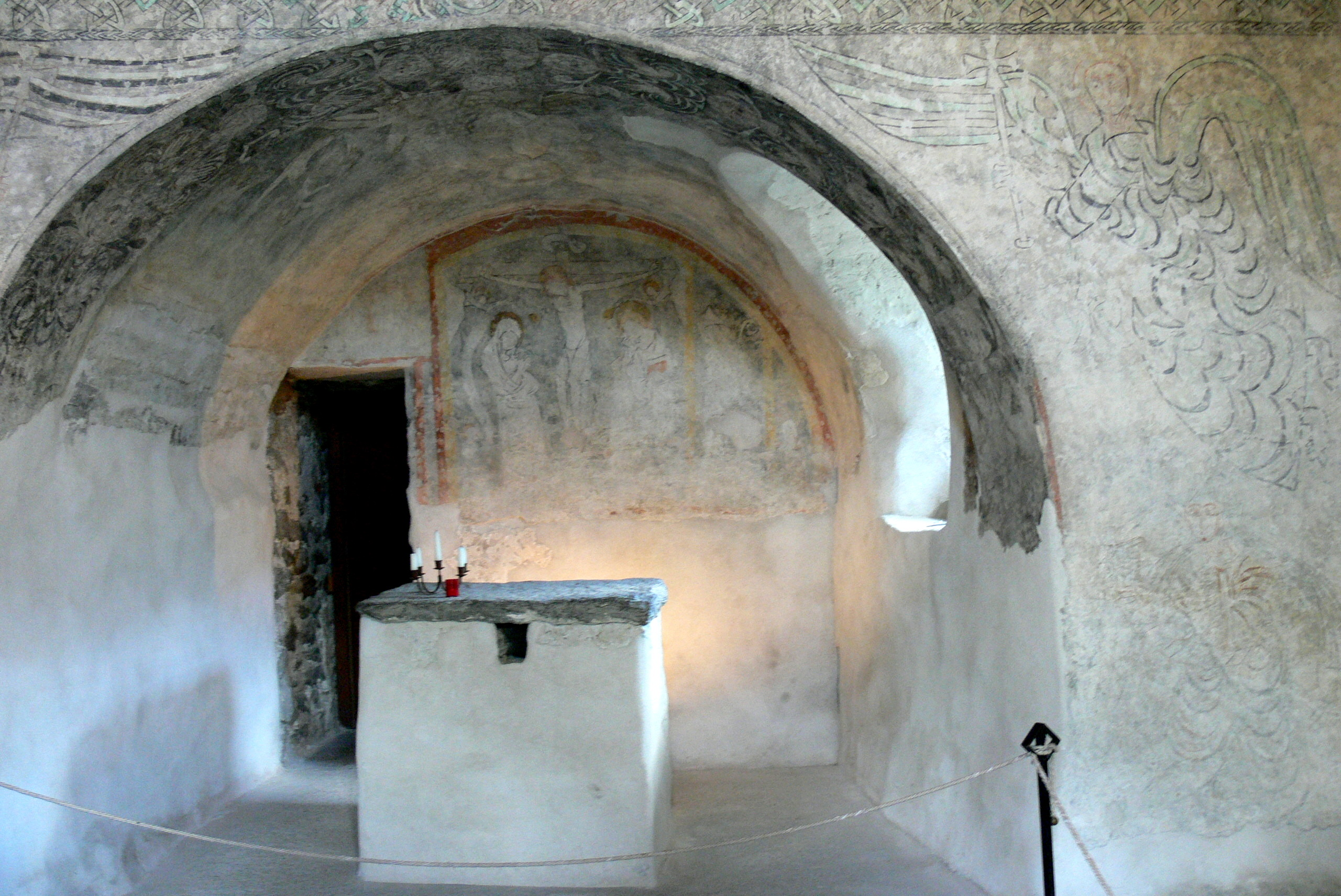 Naturns ( South Tyrol ). Saint Proculus church: Chancel.